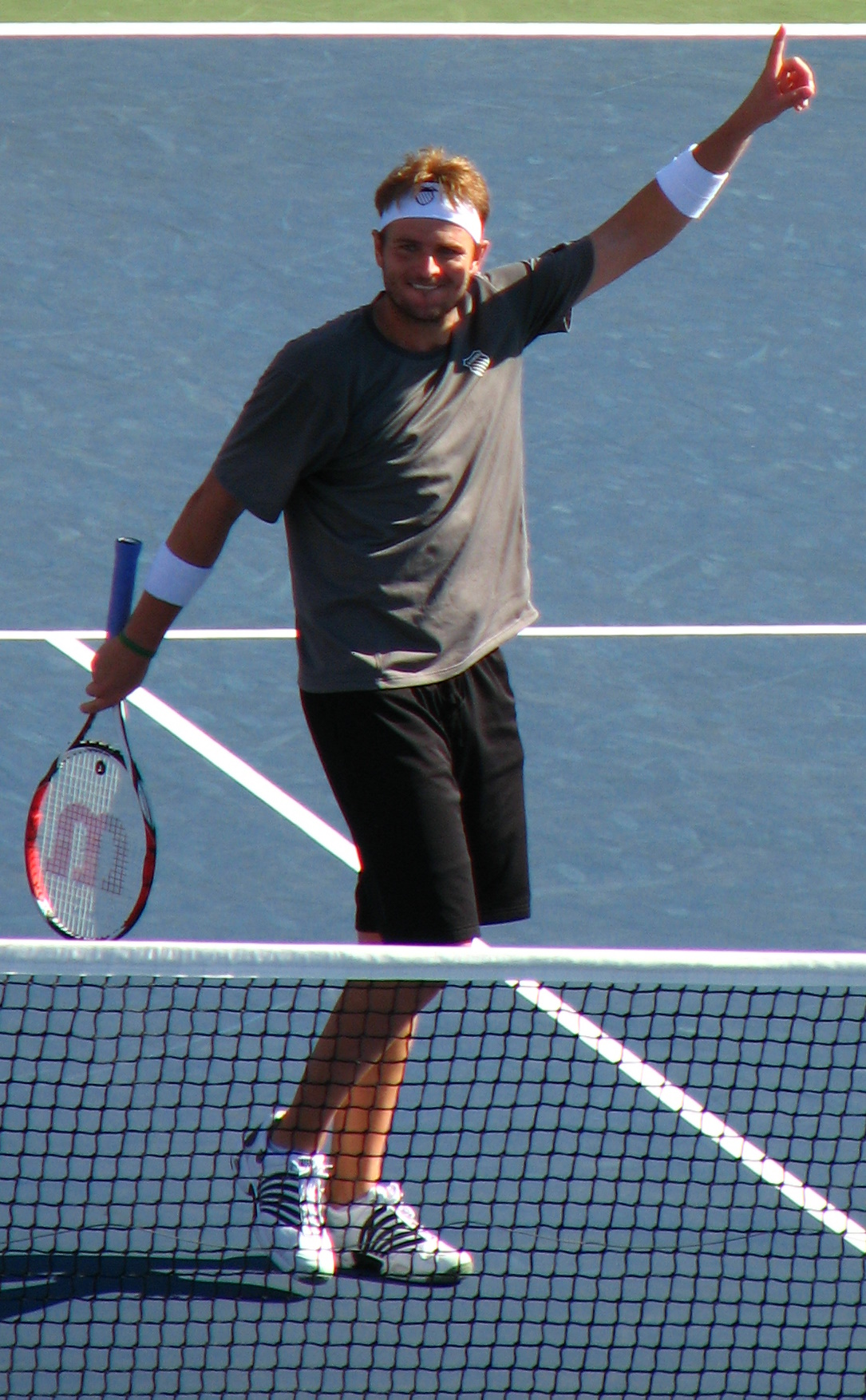 Mardy Fish at 2008 US Open